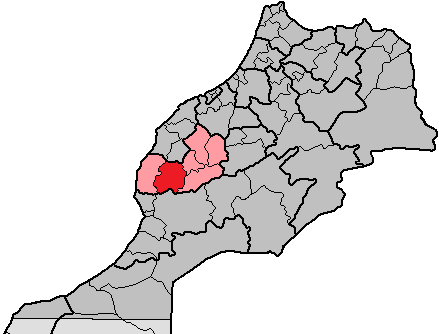 Location of the province Chichaoua within the region Marrakech-Tensift-Al Haouz, Morocco. In total, Morocco has 16 regions, subdivided into 62 provinces and 13 prefectures.